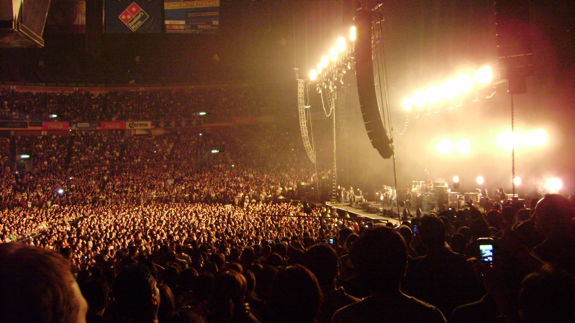 Inner view of Mexico City Palacio de los Deportes during a concert of Kings of Leon.